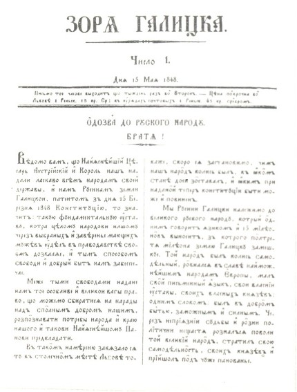 Newspaper "Zoria halytska" No 1 (15 May 1848).